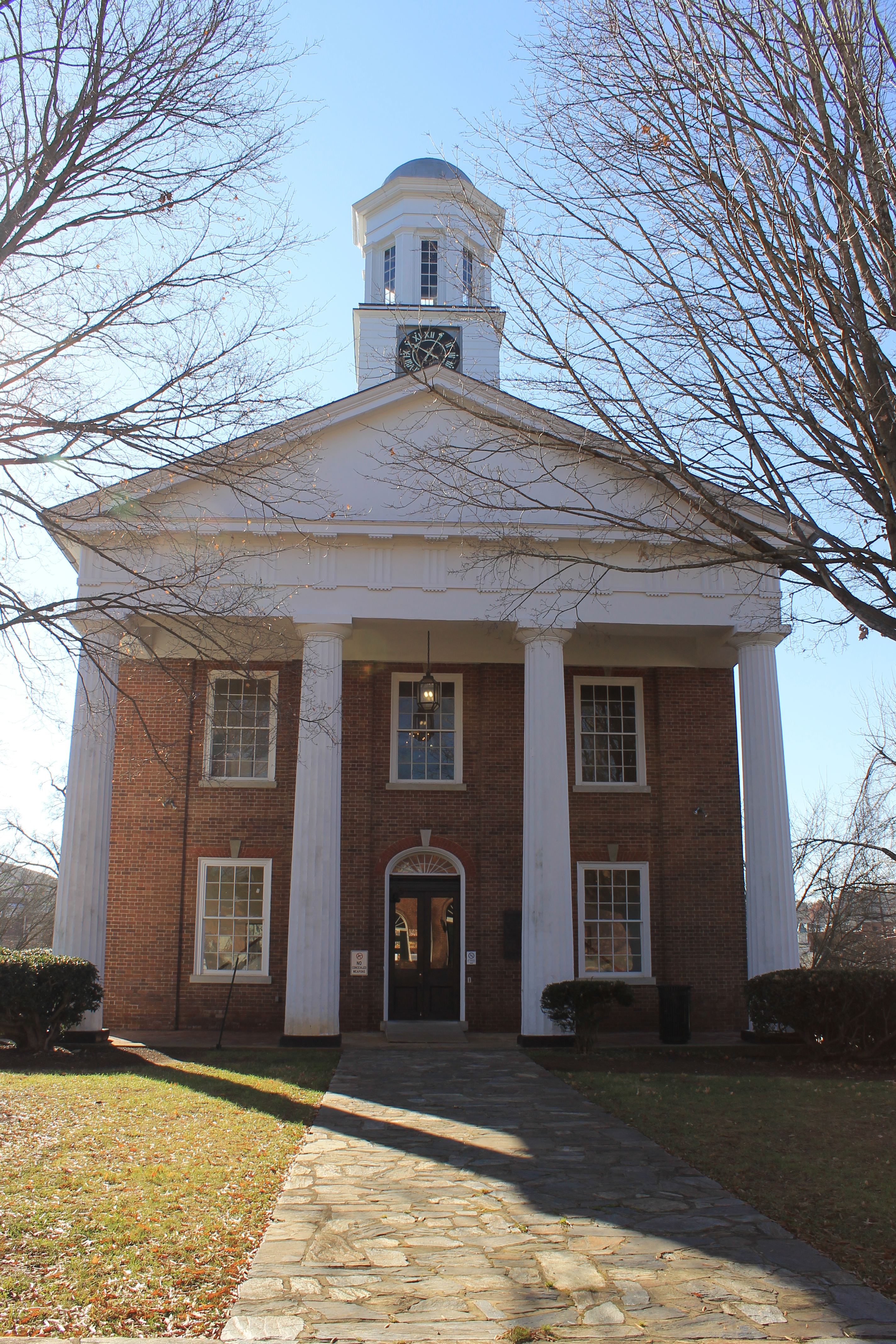 Old Orange County Courthouse, 106 E. King St. Hillsborough